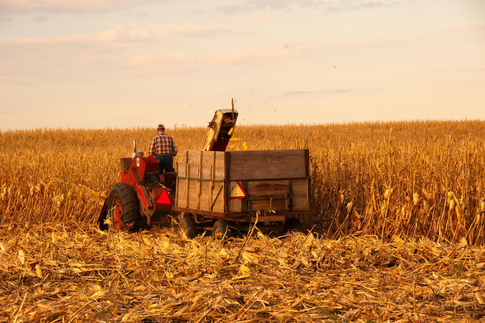 A farmer using an old school IHC corn picker and trailer, Story County, Iowa, USA.